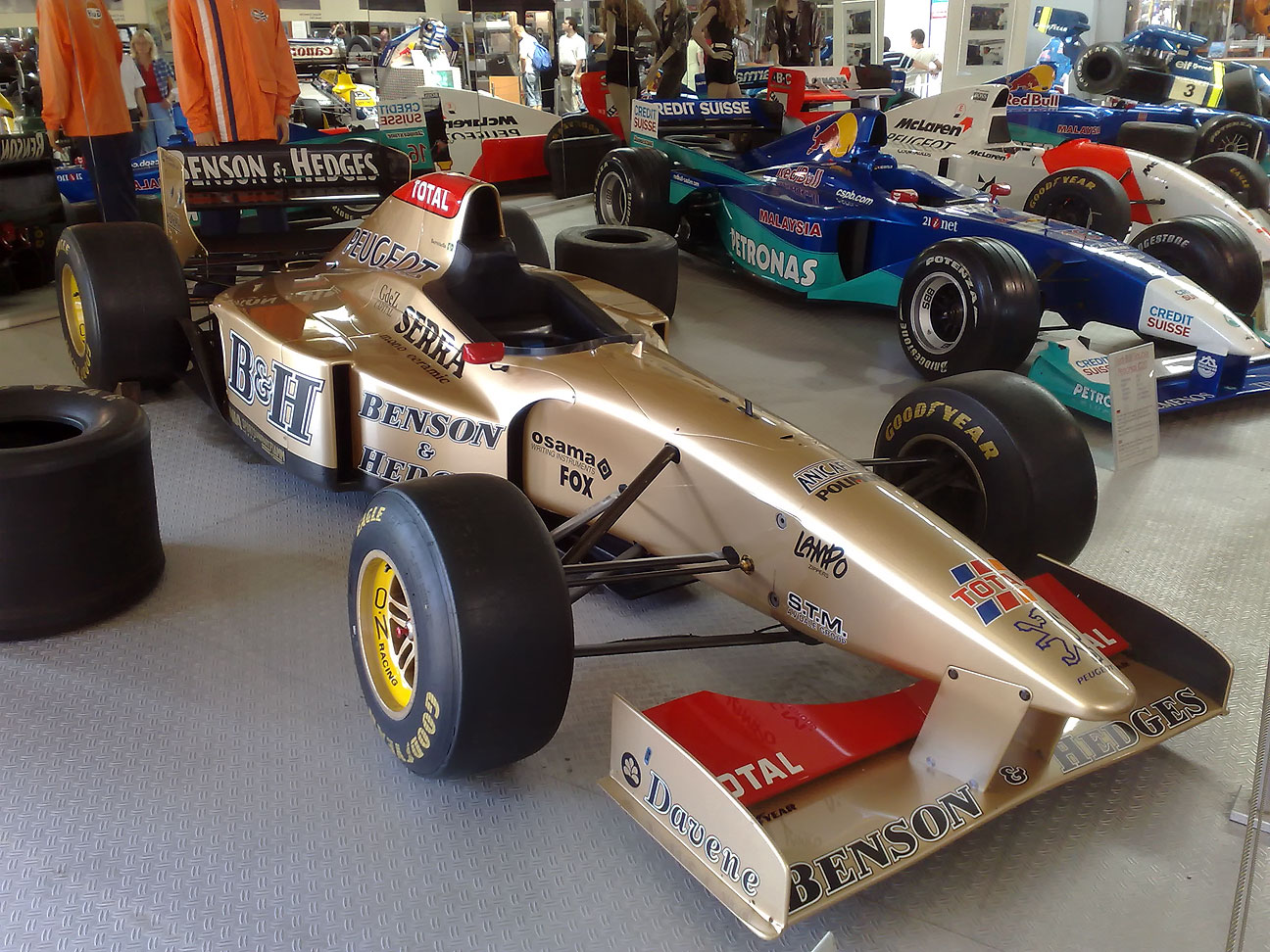 Jordan Peugeot 196 at Auto- und Technikmuseum Sinsheim